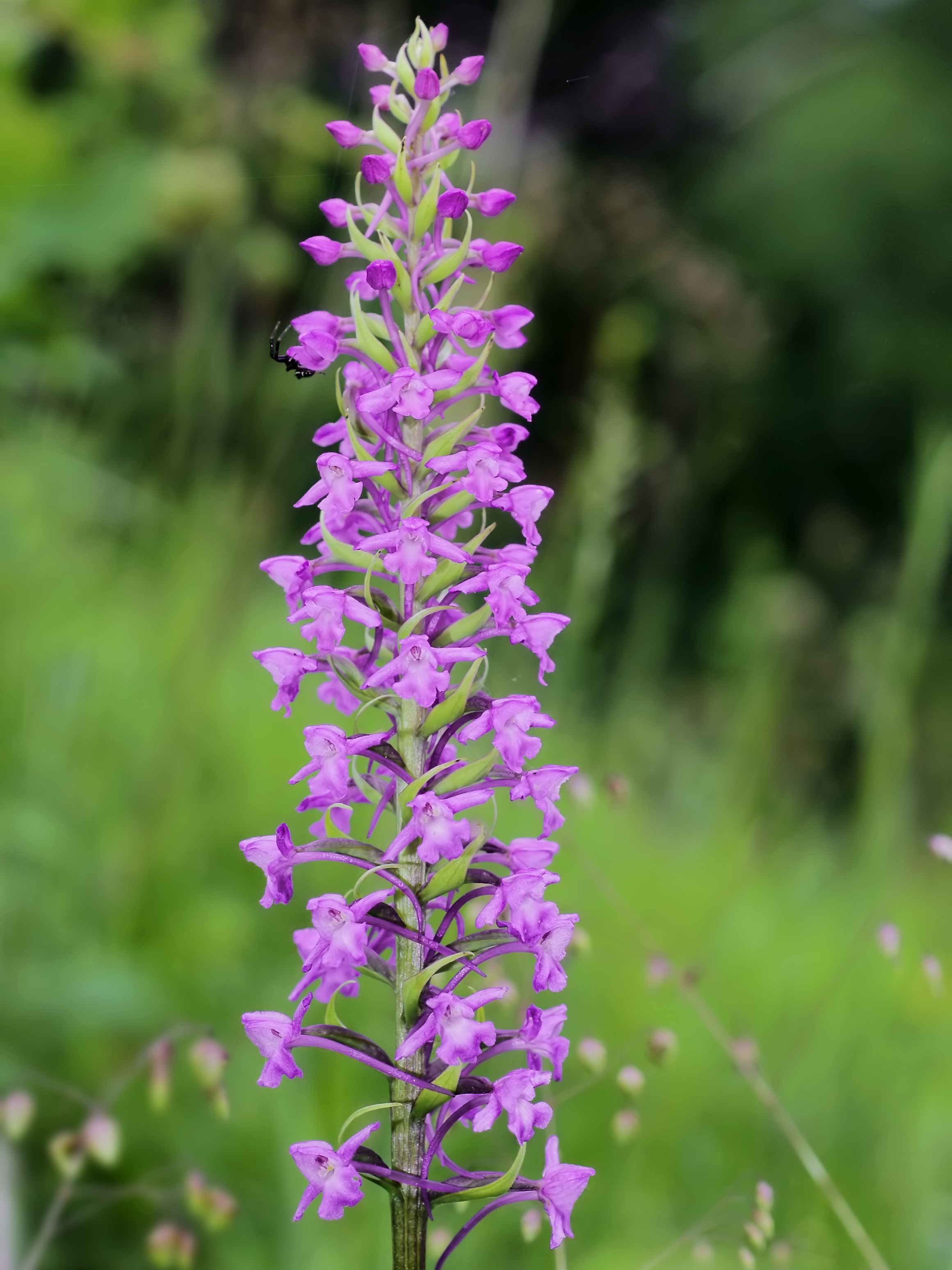 Fragrant orchid.